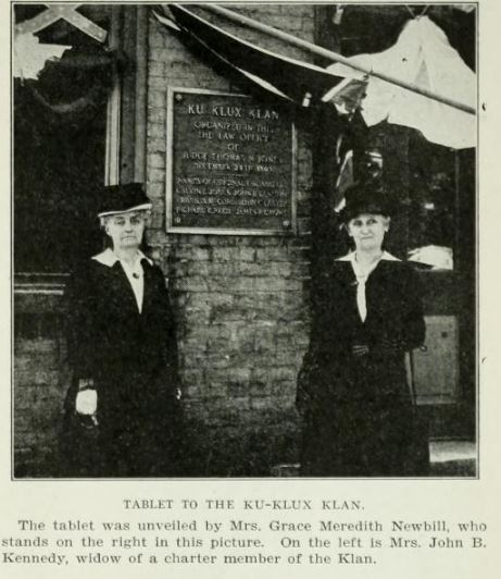 Ku Klux Klan plaque unveiled in 1917